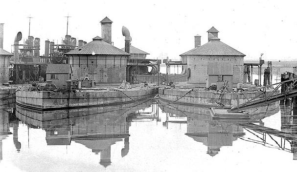 A cropped photograph of the USS Montauk (right) and USS Lehigh (left) while mothballed at the Philadelphia Navy Yard, Pennsylvania, circa late 1902 or early 1903. Other ships present, at extreme left and in center beyond Montauk and Lehigh, include three other old monitors and two new destroyers (probably Bainbridge and Chauncey, both in reserve at Philadelphia from November 1902 to February 1903).